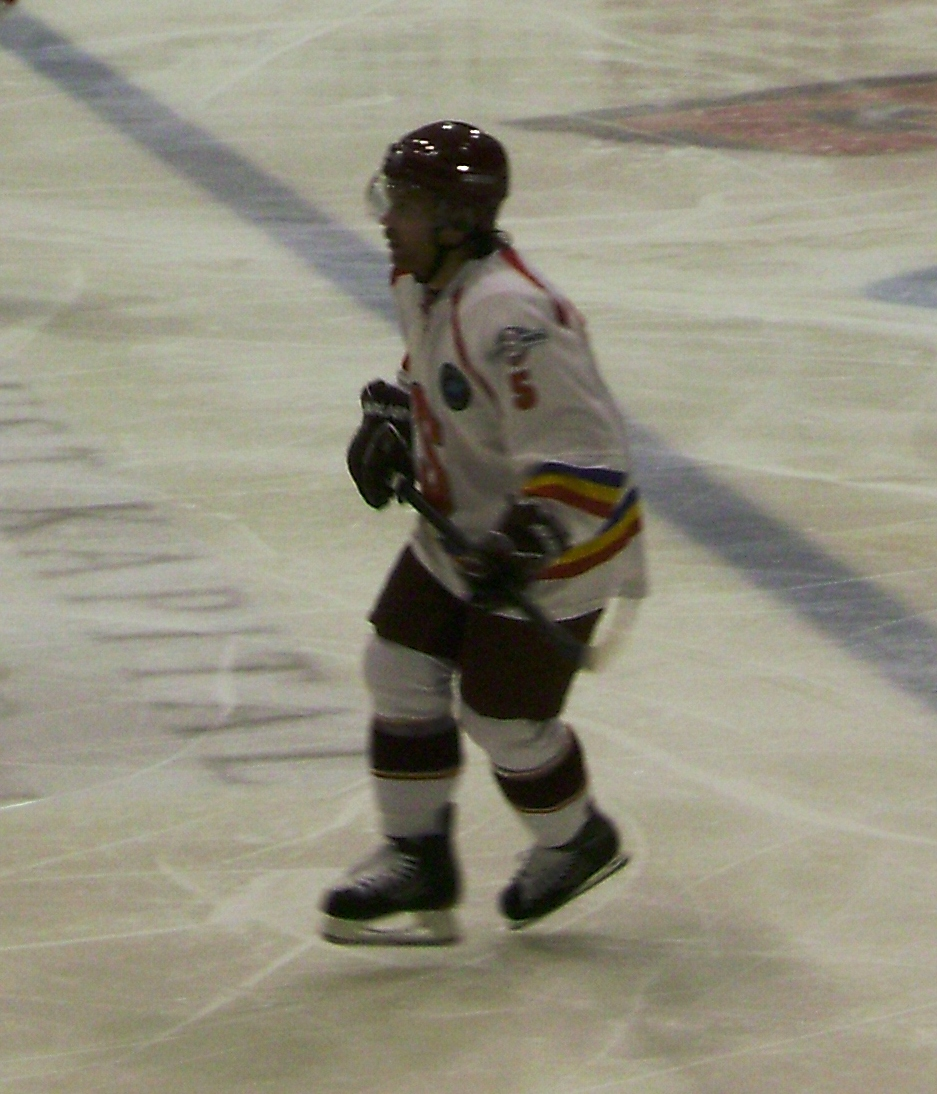 Ari Vallin (HC Sparta Praha) during the European Trophy game against KalPa in Kuopio, 2012-08-17.